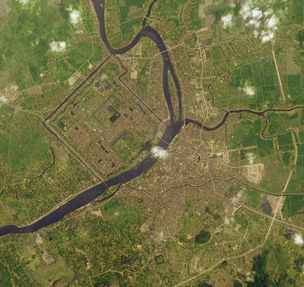 Satellite image of Hue City, Vietnam (captured by ASTER, Terra)